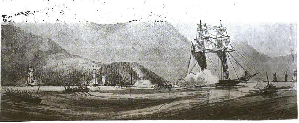 A depiction of Experiments fight with Picaroons in the Action of 1 January 1800.